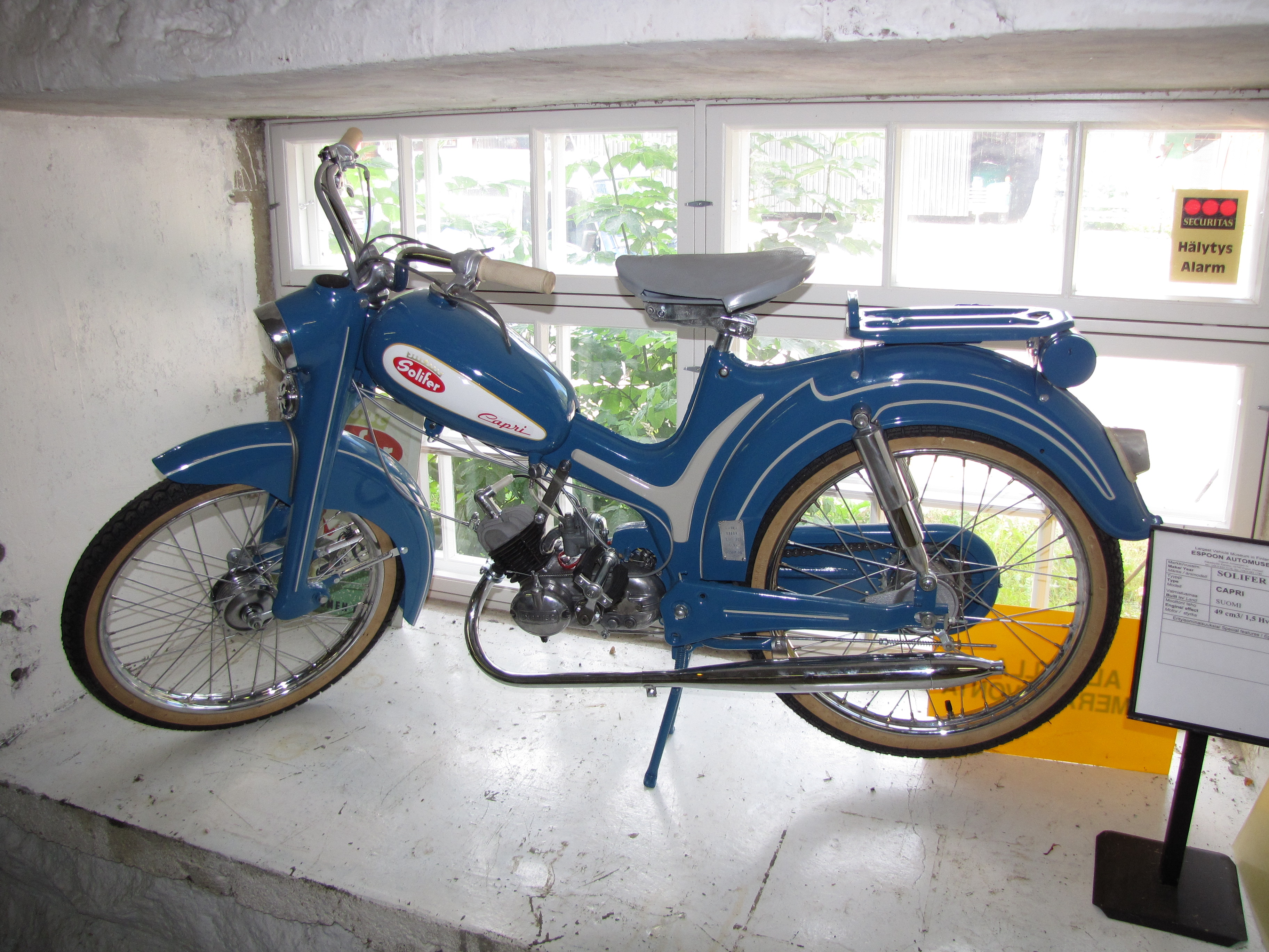 Solifer Capri model 1958 moped photographed in Espoo Automobile Museum.